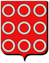 Coat of arms of then english family Coetmen in Portugal